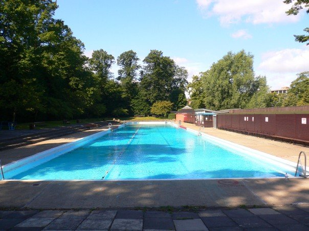 Jesus Green Lido, Summer 2007. Photograph A. Latham